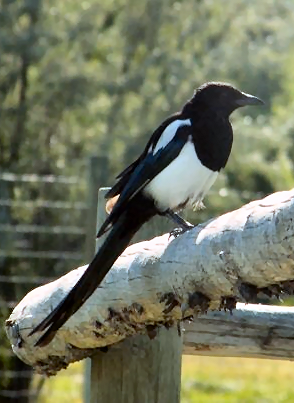 This is Black-billed Magpie. Taken in Yellowstone Bear World (near Idaho Falls, Idaho).